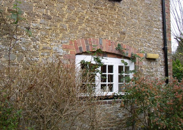 Galleting at Puttenham. This example is on a house near to the school. Small flints have been embedded in the mortar.